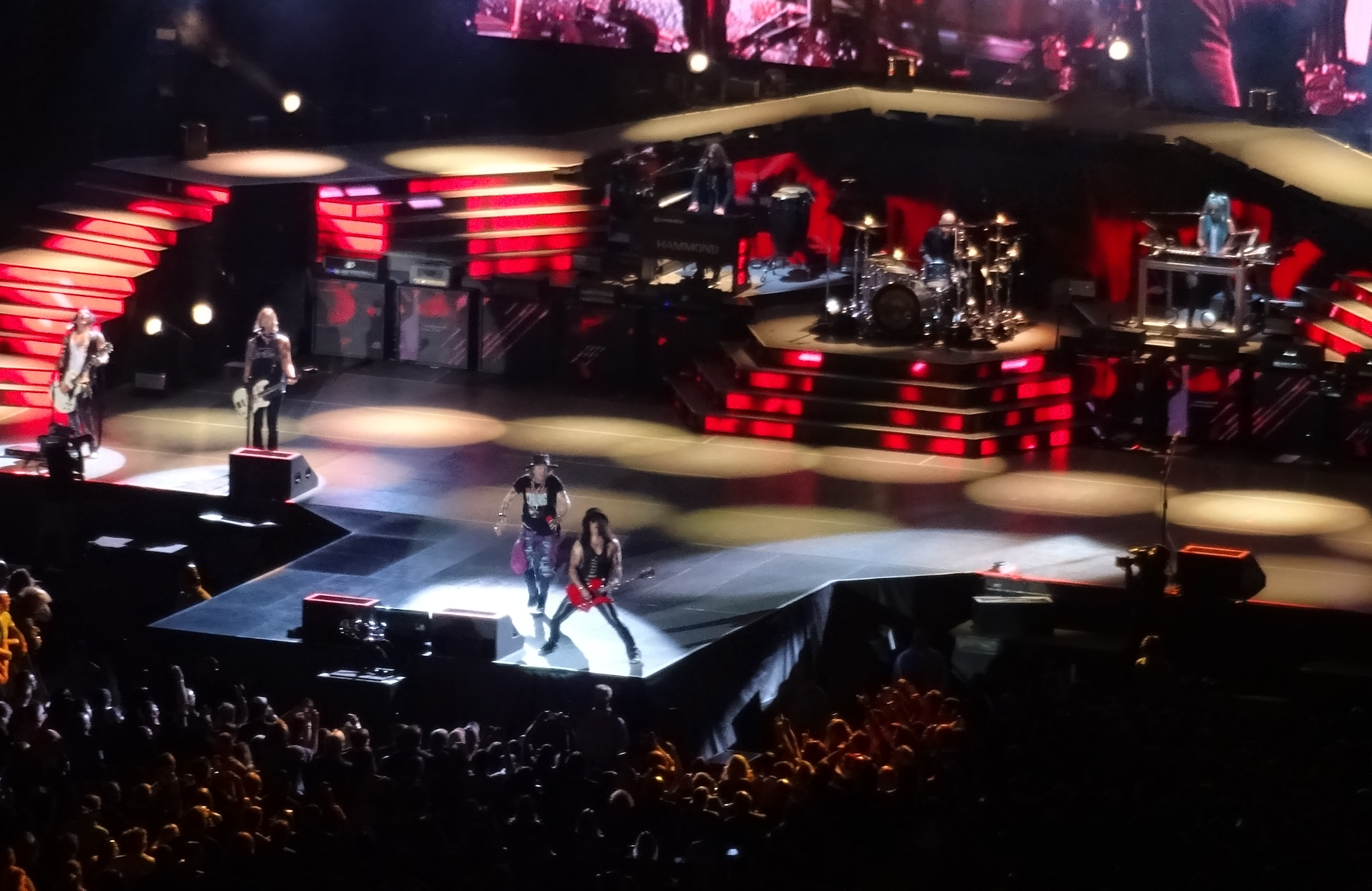 GNR Not in This Lifetime, Seattle 12-Aug-2016